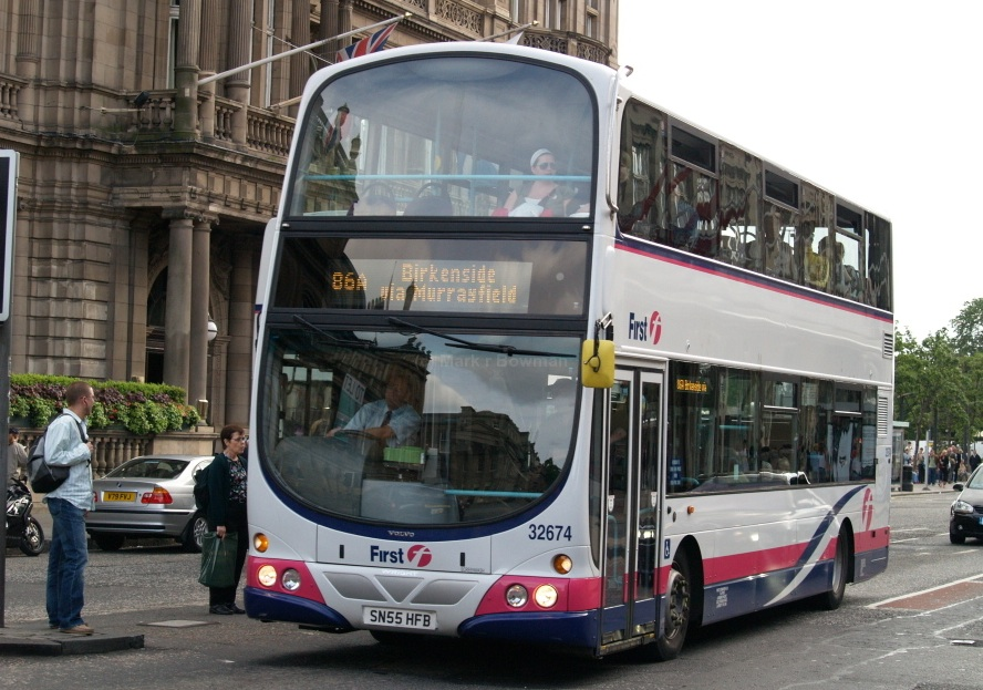 First Edinburgh bus 32674 (reg. SN55 HFB), a 2005 Volvo B7TL double-decker with Wright Eclipse Gemini bodywork, pictured on Princes Street in Edinburgh. Headed for the southern suburbs, the bus is at the east end of Princes Street heading east, about to turn right onto North Bridge to go south. The entrance to the Balmoral Hotel can be seen behind the bus.